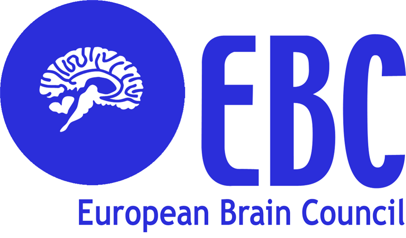 EBC old logo